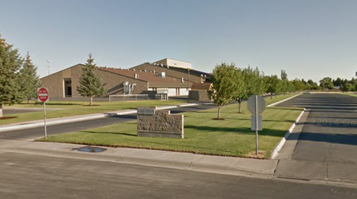 Sandcreek Middle School Entrance